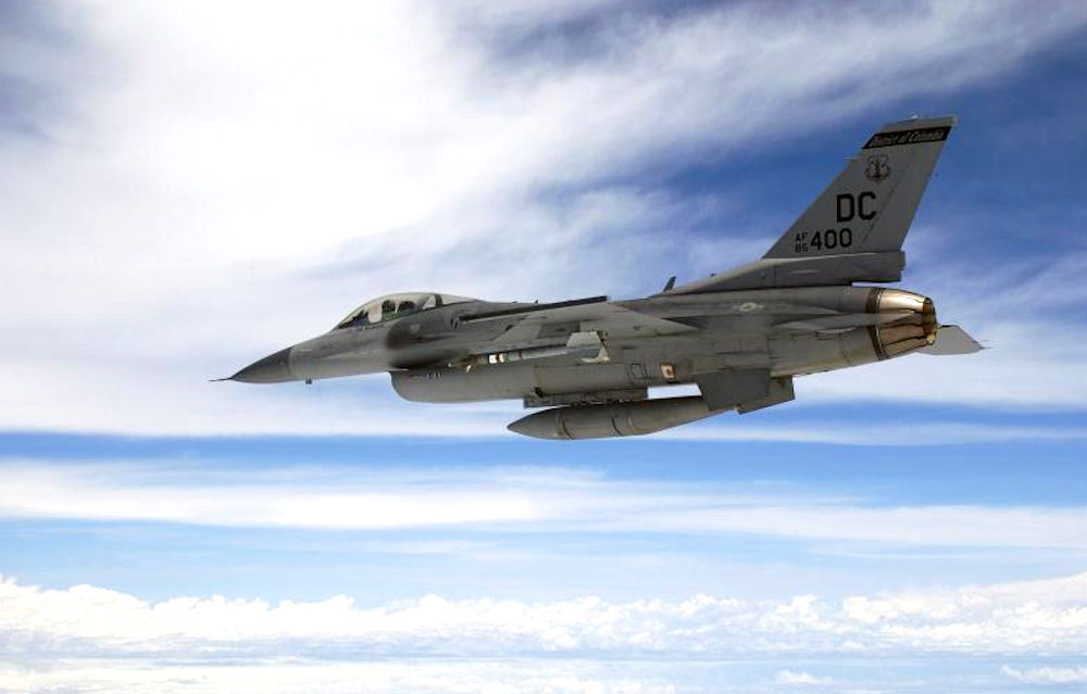 USAF F-16C block 30 #85-1400 from the 121st FS is armed with an AIM-9M Sidewinder missile and equipped with an airborne instrumentation pod, in flight over the Gulf of Mexico, while participating in Exercise Combat Archer on April 29th, 2004. [USAF photo by MSgt. Michael Ammons]